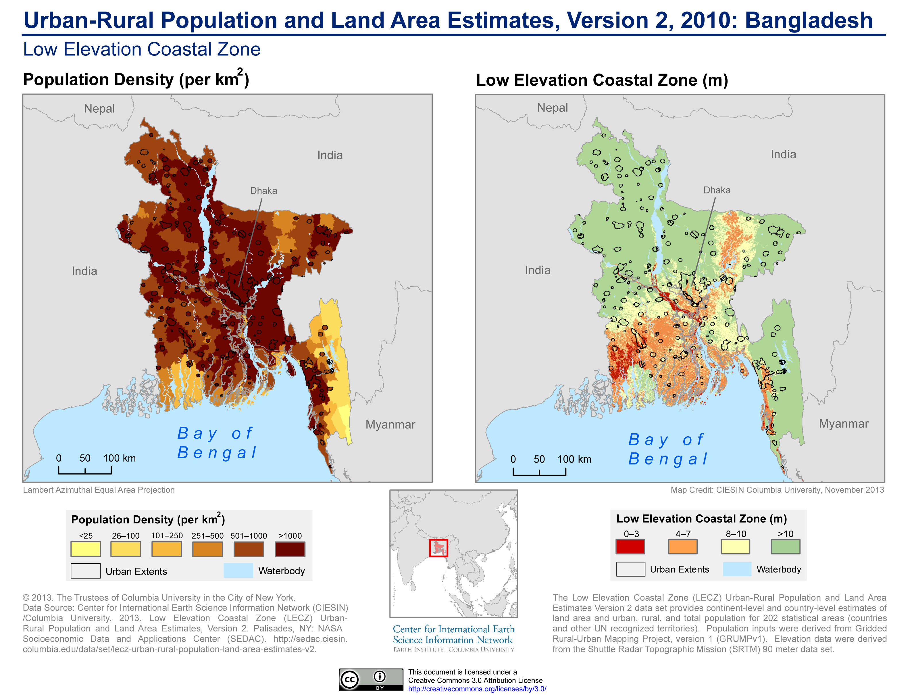 The Low Elevation Coastal Zone (LECZ) Urban-Rural Population and Land Area Estimates Version 2 dataset provides continent-level and country-level estimates of land area and urban, rural, and total population for 202 statistical areas (countries and other UN recognized territories). Population inputs were derived from Gridded Rural-Urban Mapping Project, Version 1 (GRUMPv1). Elevation data were derived from the Shuttle Radar Topographic Mission (SRTM) 90 meter dataset.